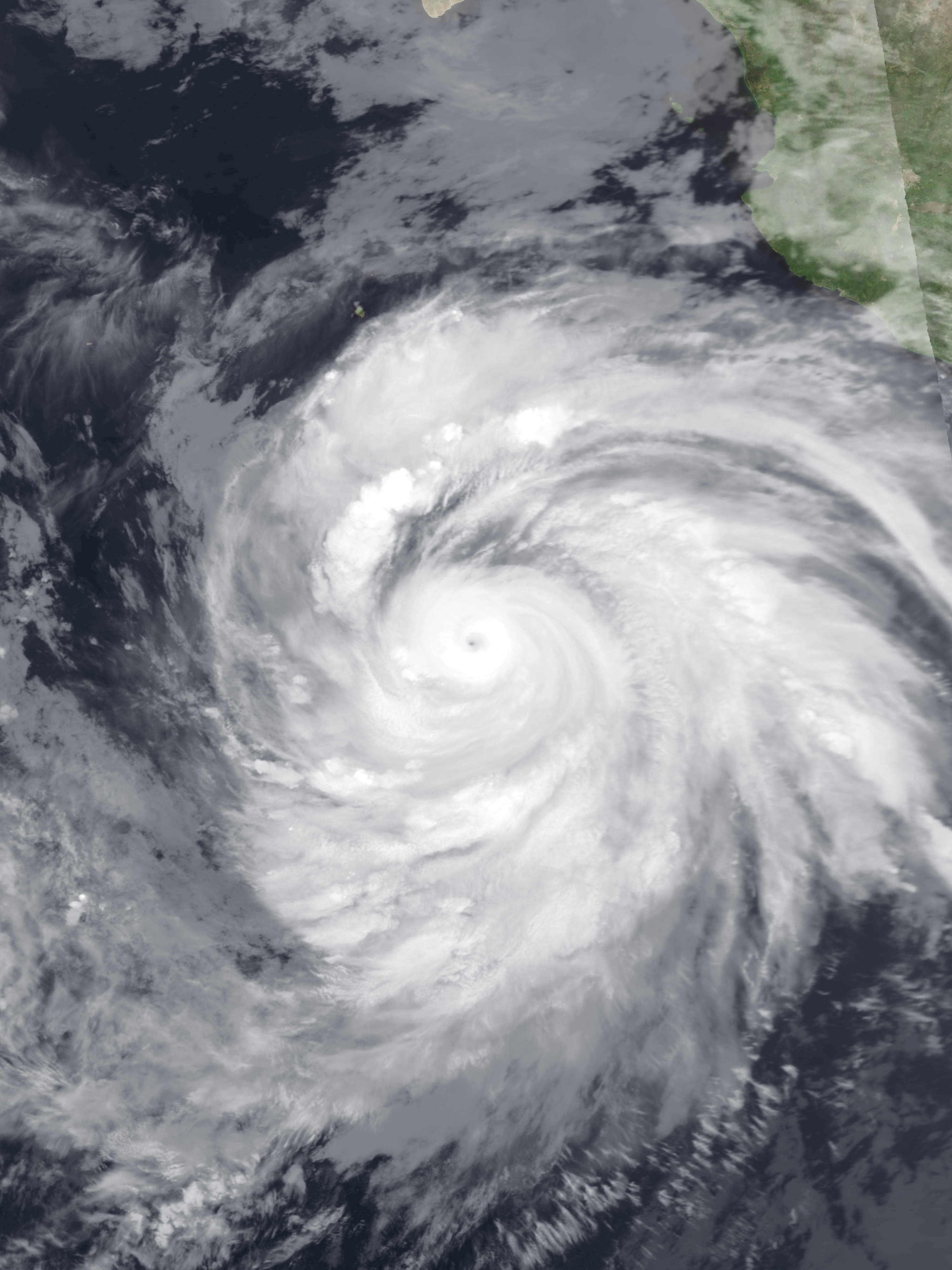 Hurricane Elida near peak intensity on July 25